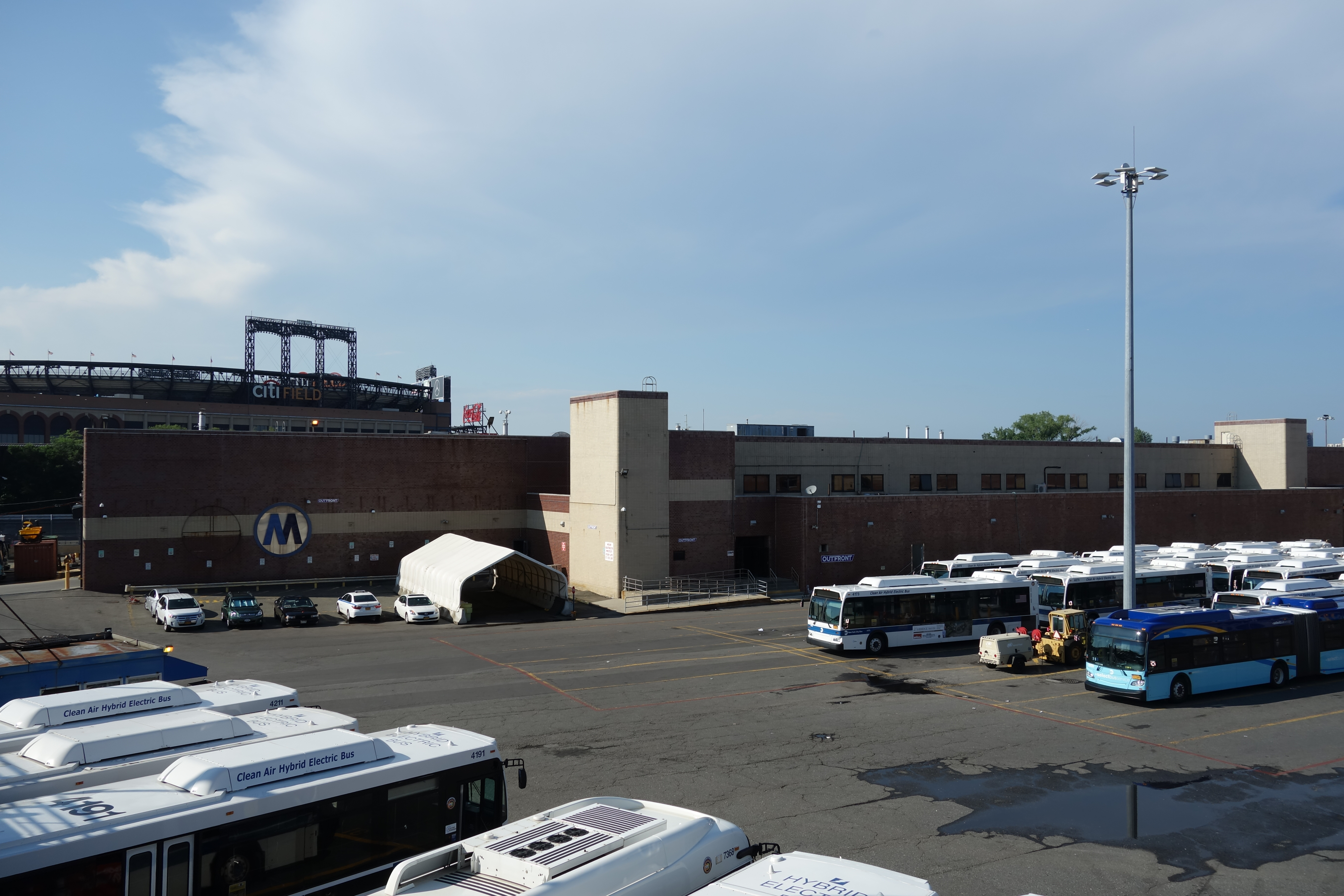 Looking at the Casey Stengel Bus Depot south of Roosevelt Avenue in Flushing Meadows / Willets Point, Queens. Looking north from the pedestrian bridge between Flushing Meadows and the Mets – Willets Point subway station.